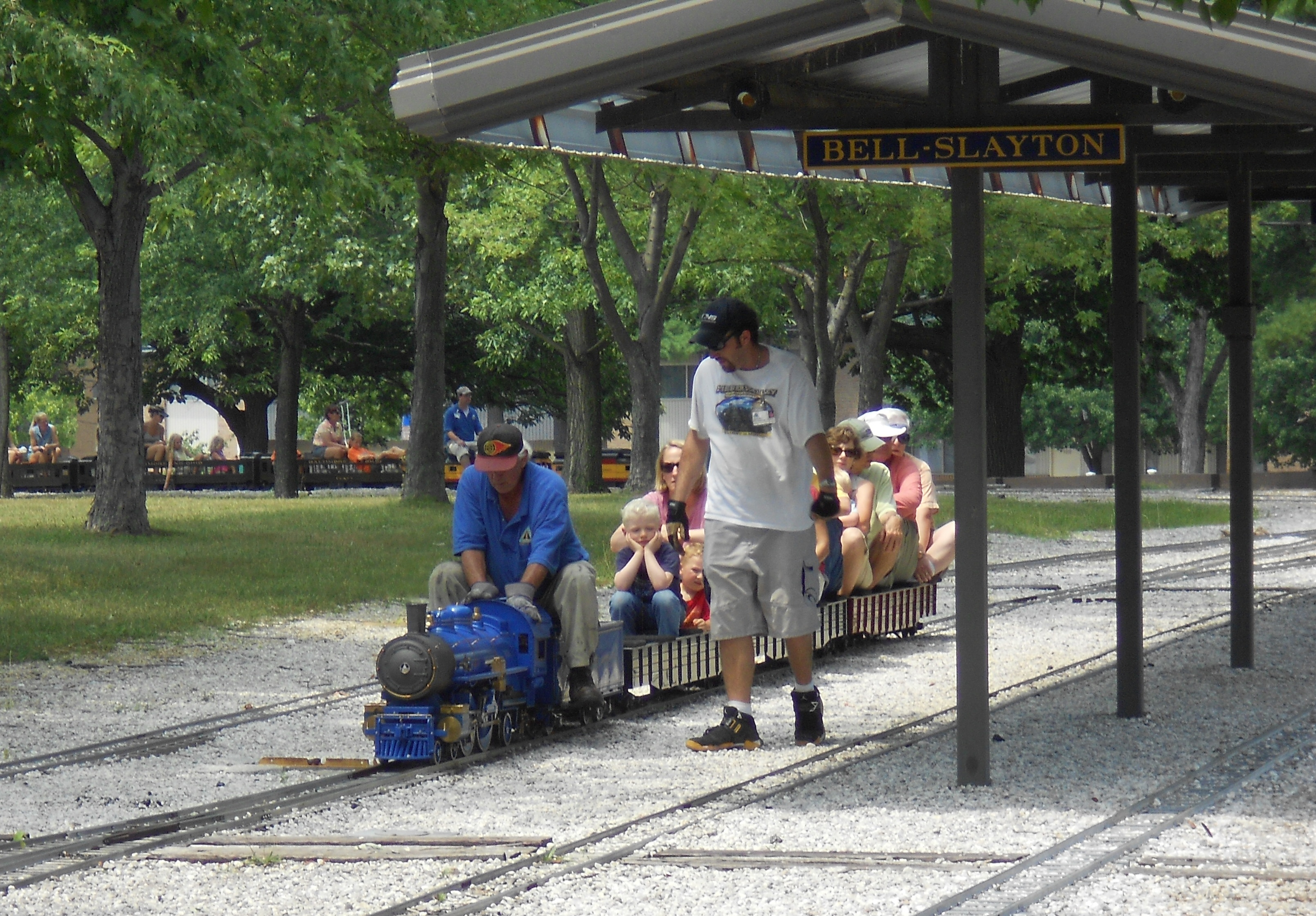 Miniature steam-powered train of Chesapeake & Allegheny Live Steamers passing through Bell-Slayton Station at Gwynns Falls Leakin Park in Baltimore